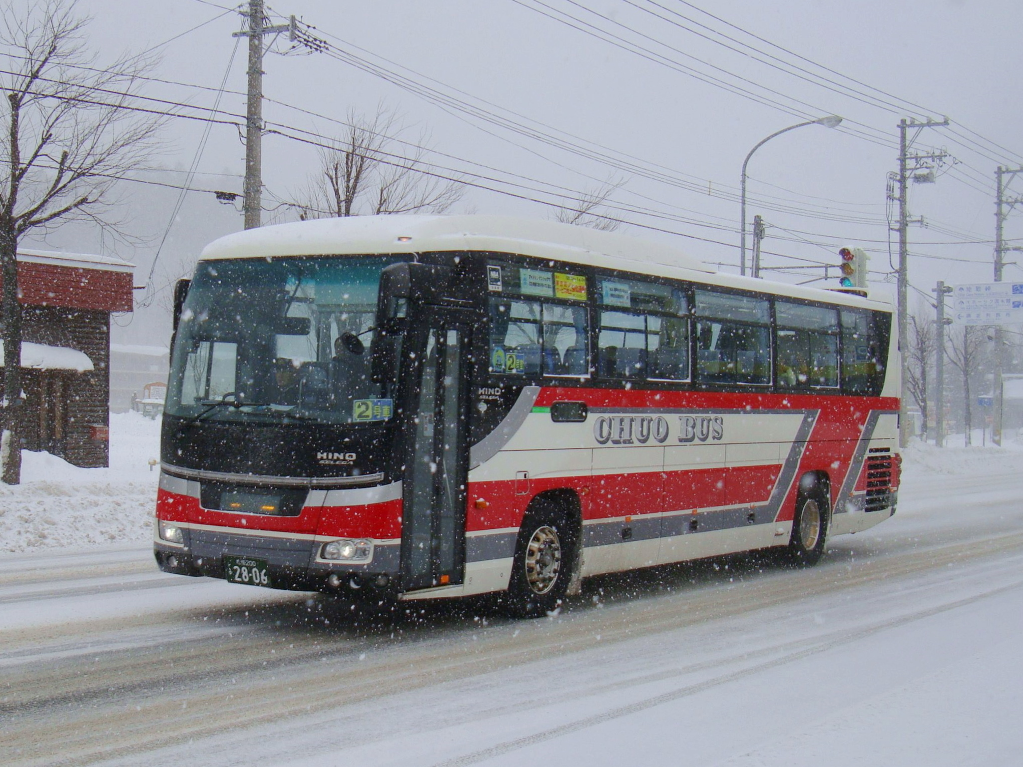 "Dreamint Okhotsk gō" Abashiri to Sapporo